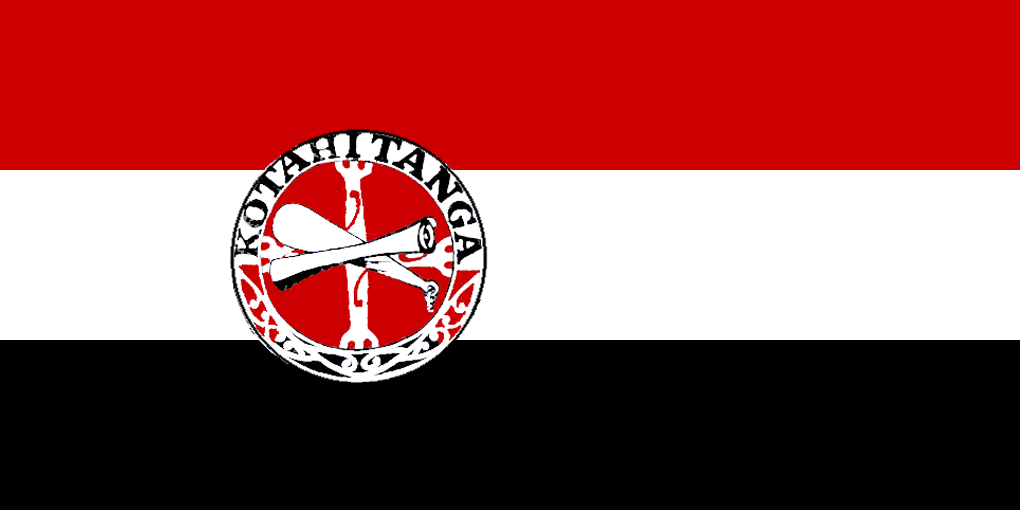 Kotahitanga flag, used by Maori groups within New Zealand